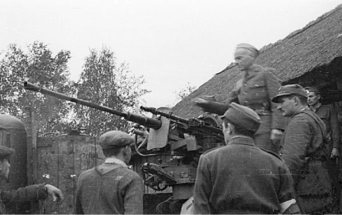 Kampinos Regiment during Warsaw Uprising: Mjr Alfons Kotowski "Okoń" speaks to soldiers of Kampinos Regiment before leaving Kampinos forest. Next to him visible German anti-aircraft machine gun. Below on the right standing Adolf Pilch "Dolina" (with mustache). Standing backward with armband Lech Zabierek "Wulkan". Second half of September 1944.